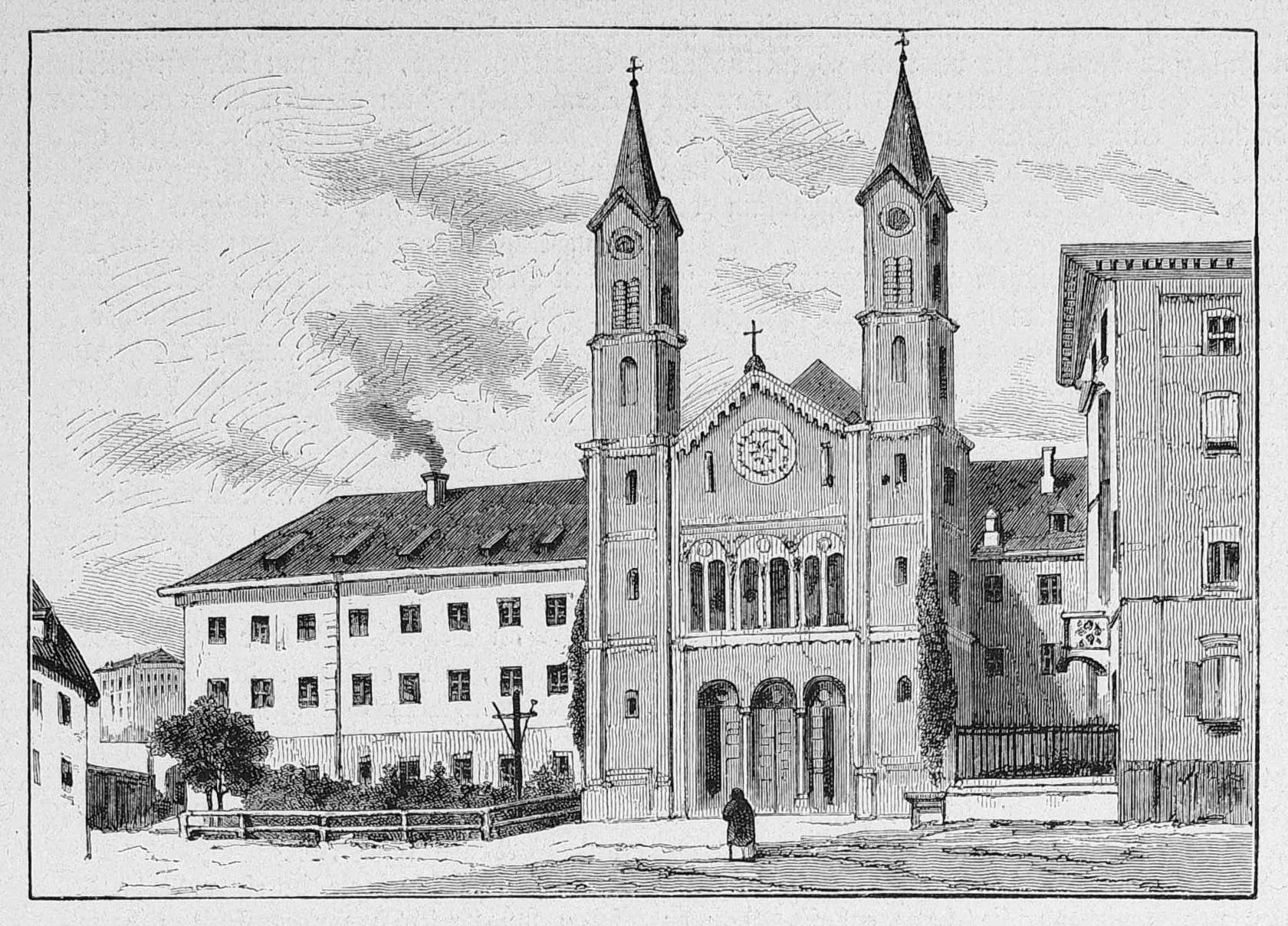 Expression error: Unrecognized punctuation character "_".